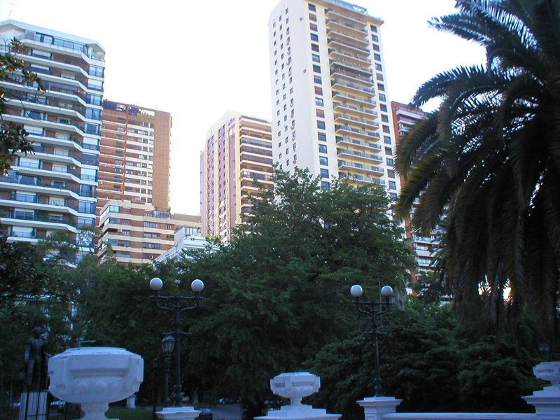 Residential high-rises in the Barrancas de Belgrano section of Buenos Aires. The 30-story, 347 ft. Torre Blanca (Fernández Prieto, 1992) is the tallest in the group.